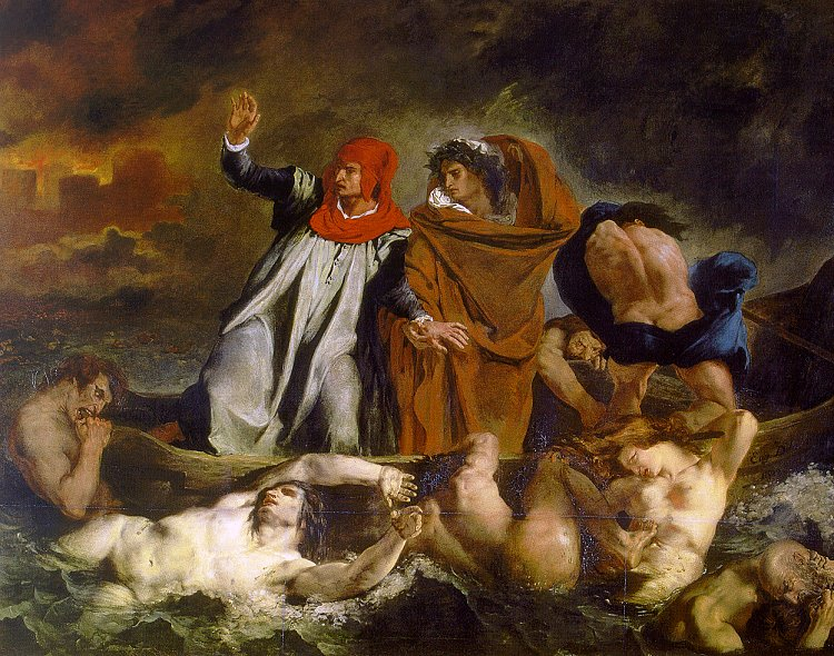 Dante and Virgil in Hell, Painting of Dante's »Divine Comedy, Inferno«, 8. Singing